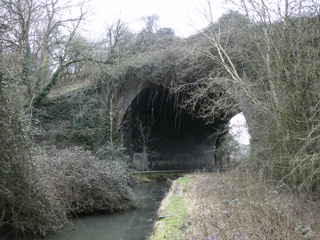 Lutterworth-River Swift The river passes under the high bridge which carried the Great Central Railway.